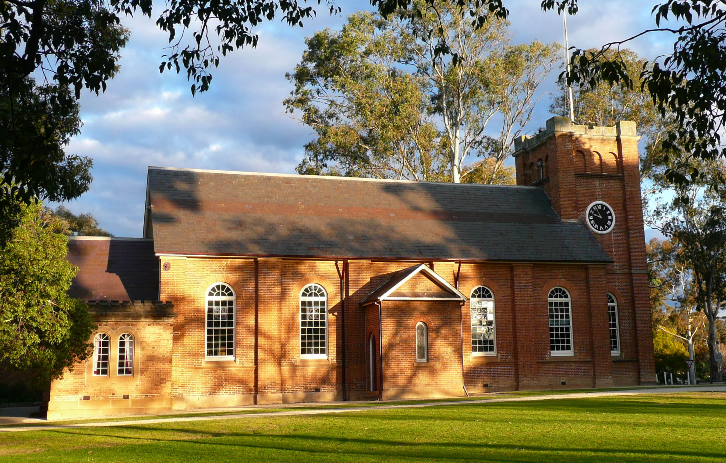 St Peters, Campbelltown, Sydney